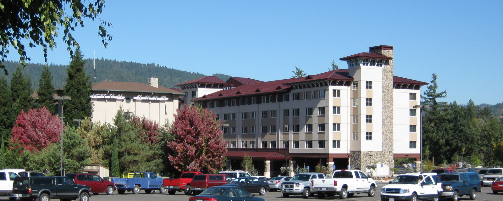 Hotel rooms at the Seven Feathers Hotel & Casino Resort in Canyonville, Oregon. Photo taken from public property.